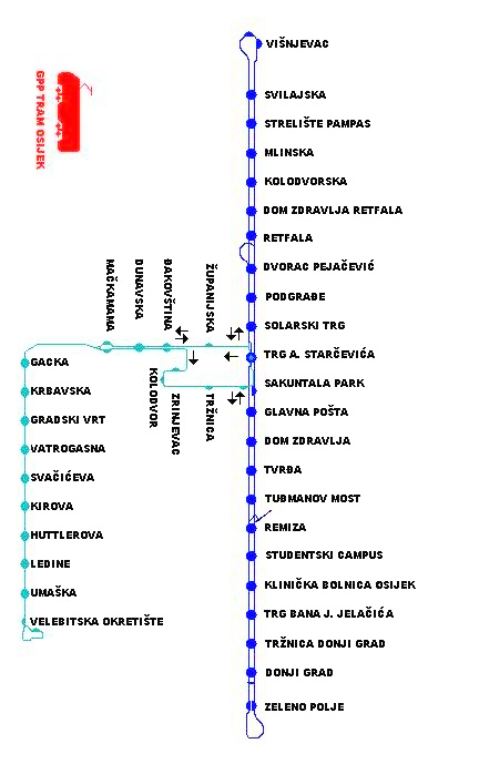 Map of tramway lines in Osijek, Croatia.